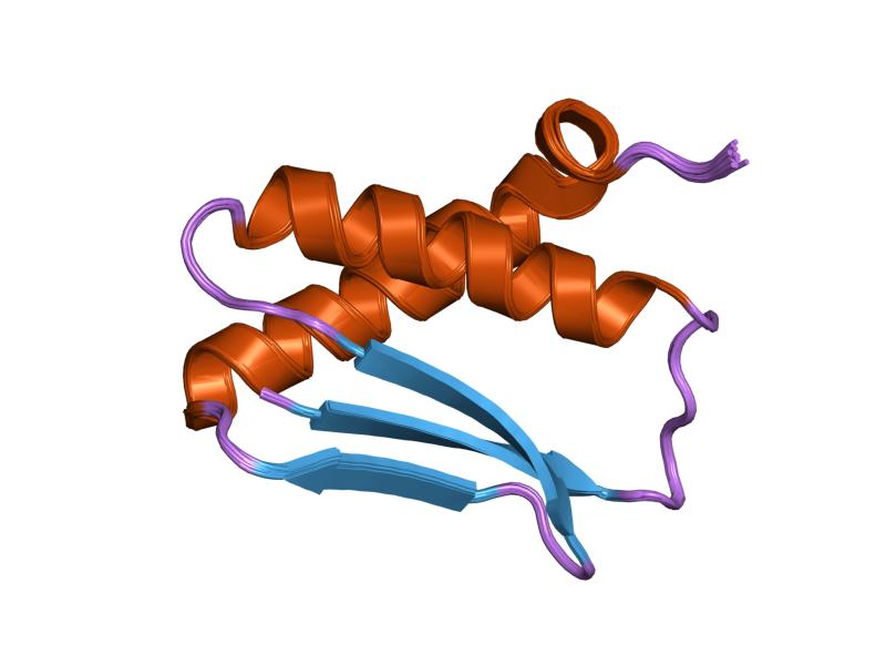 Cartoon representation of the molecular structure of protein registered with 1ghh code.